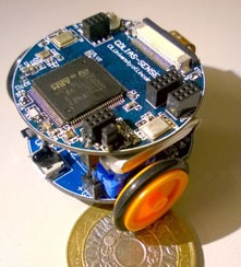 A low-cost micro-robot for Swarm Robotics and Bio-inspired vision systems.